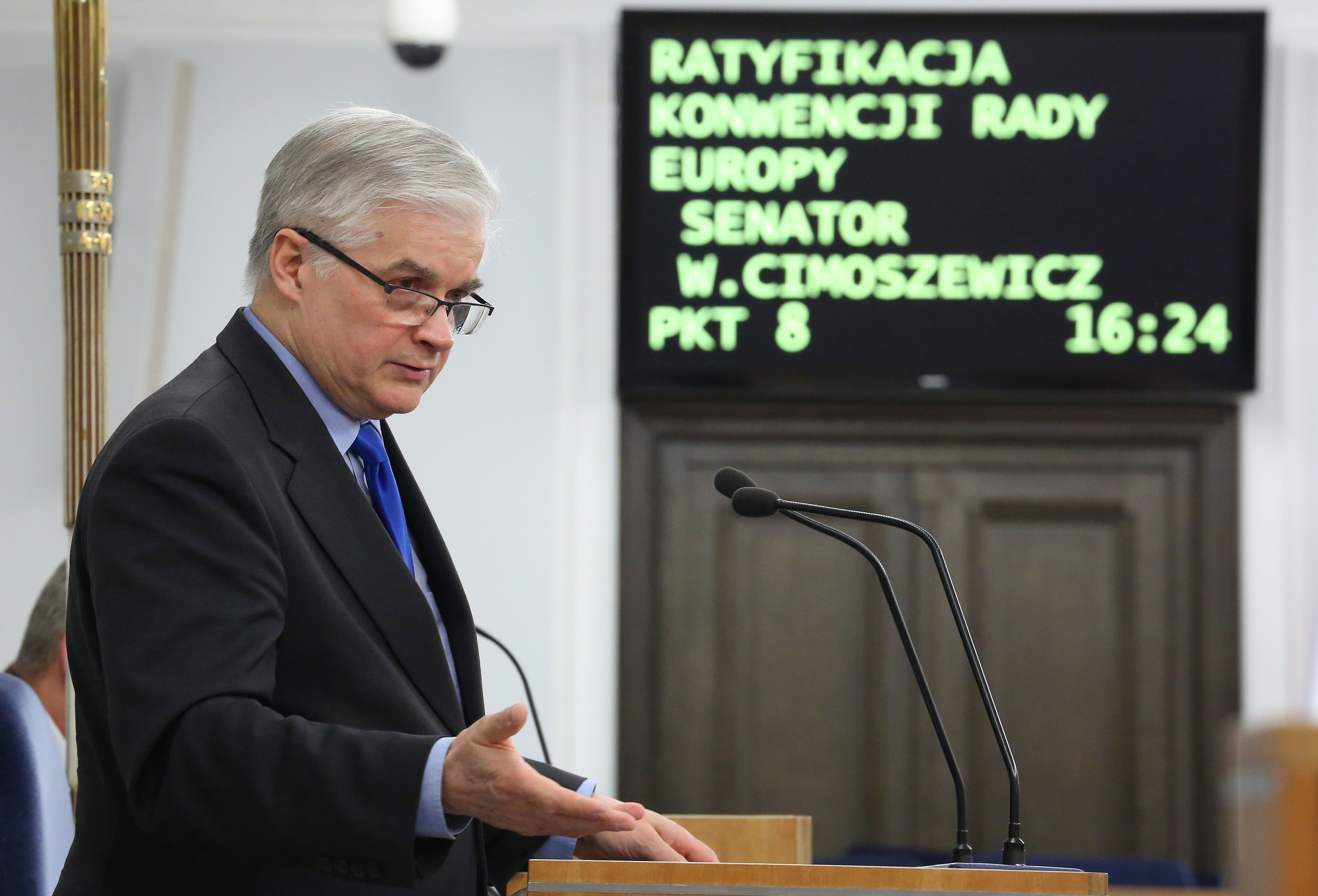 Senator Włodzimierz Cimoszewicz during 71st sitting of the Polish Senate. The debate was on the Act on the ratification of the Istanbul Convention. 71st session of the 8th term Senate (2015)